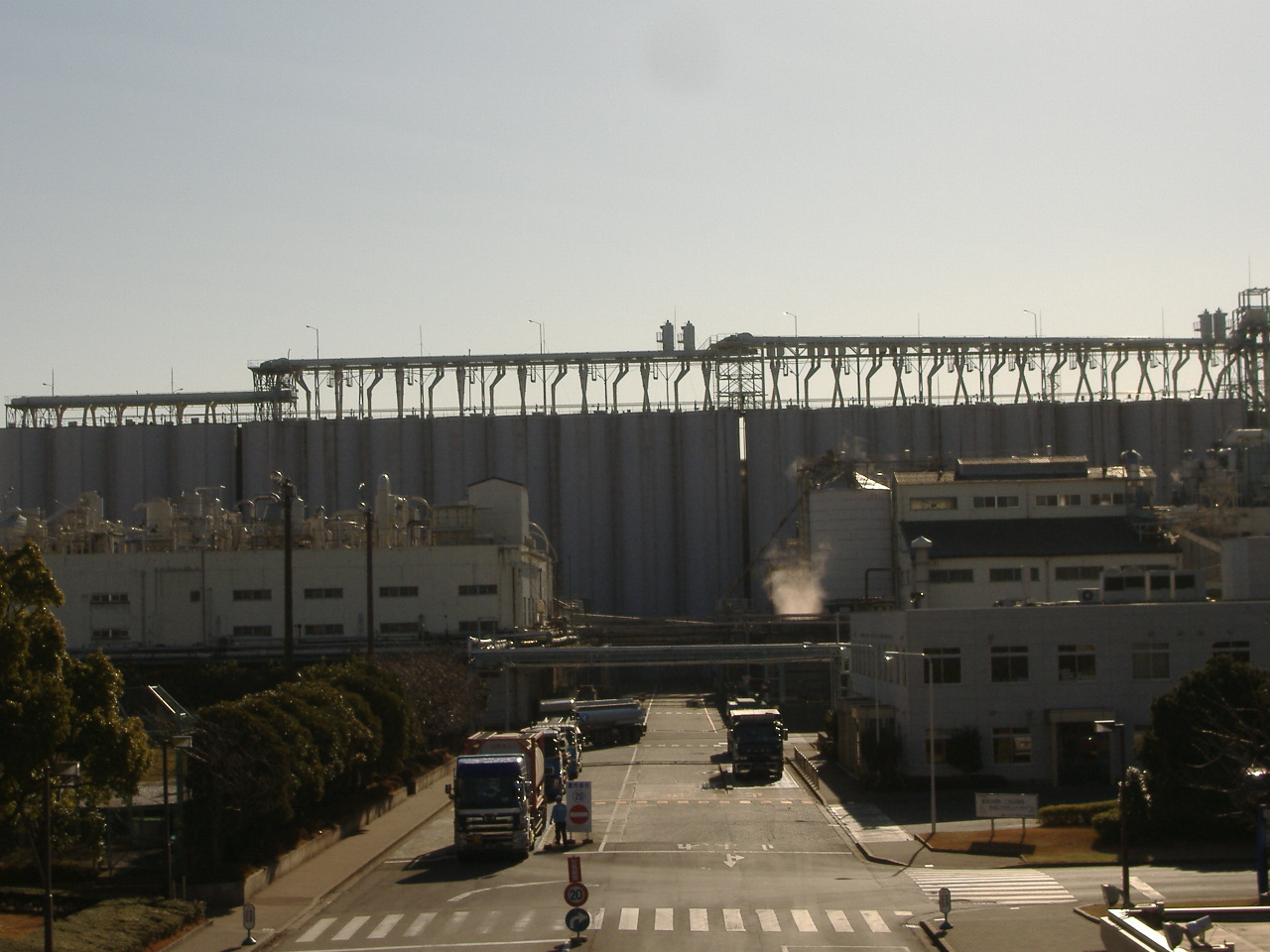 "Nisshin-Oillio" Vegetable oil factory (Yokohama, Japan)